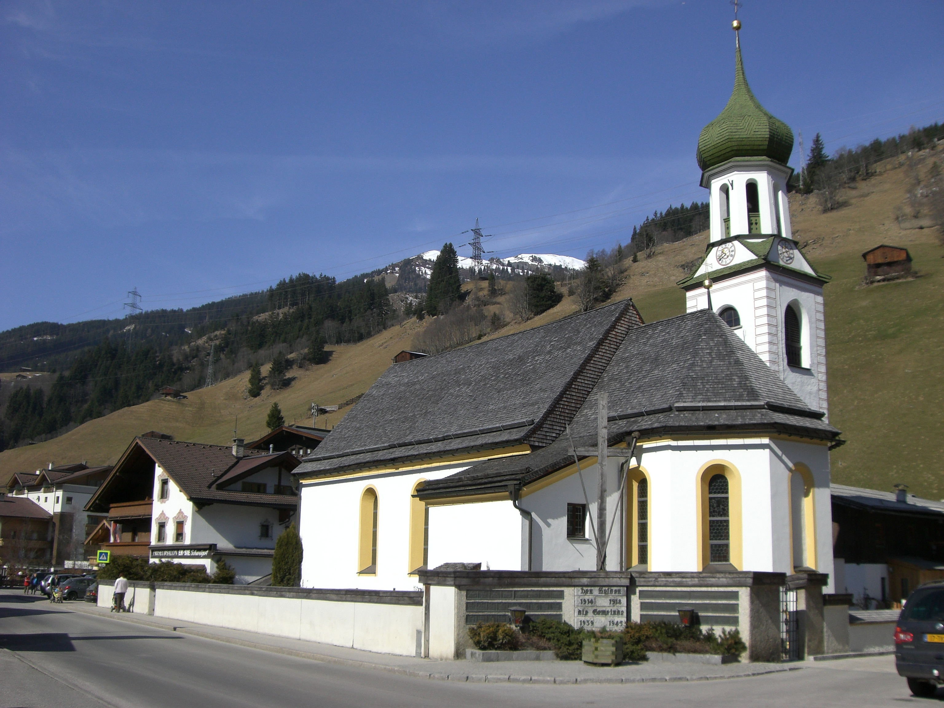 Object location47° 13′ 32.46″ N, 12° 02′ 07.26″ E